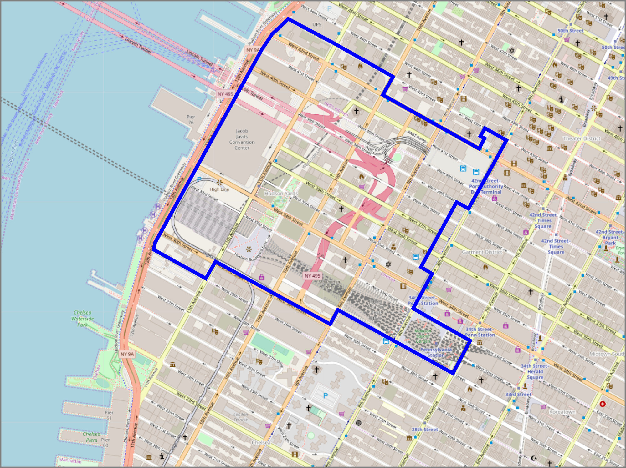 Hudson Yards Neighborhood as defined by the Hudson Yards Development Corporation. It includes the areas rezoned 2005 and 2009 as the Javits Center